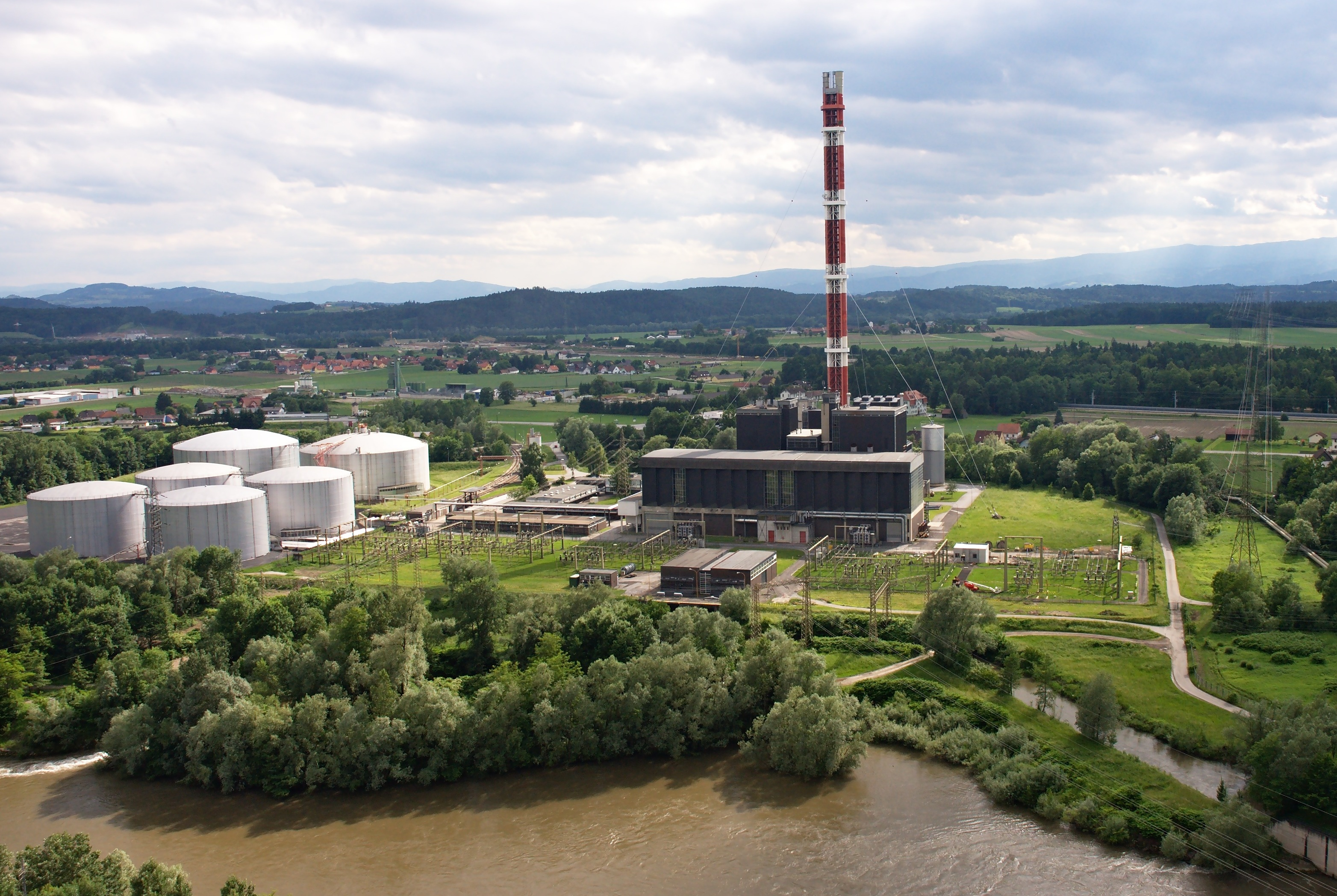 Power&Heating Plant "Fernheizkraftwerk Neudorf-Werndorf", 15 km south of Graz/Austria, oil tanks, nearby: TAG gas pipeline